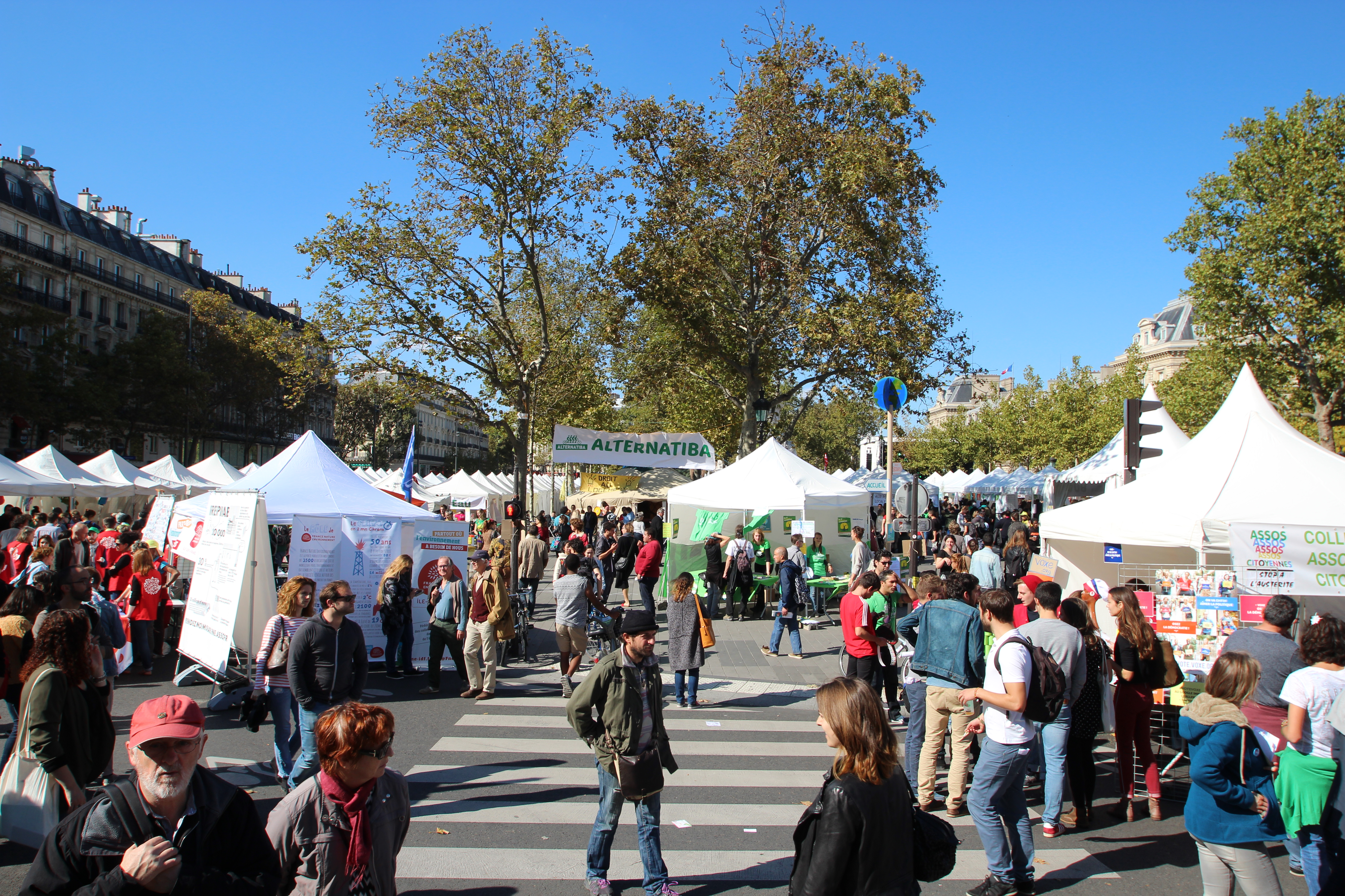 Alternatiba Paris 2015 is a citizen event offering local and concrete actions to tackle climate change held september, the 27th 2015 on the place de la République (Republic's place) in Paris, France. Object location48° 52′ 03.14″ N, 2° 21′ 50.36″ E